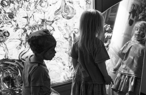 Local paper #77